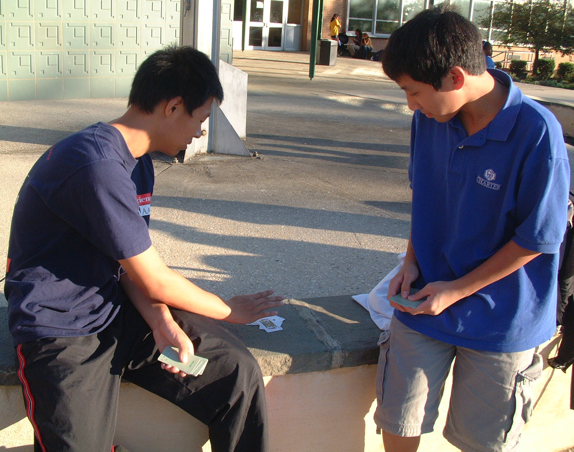 Charter School of Wilmington students